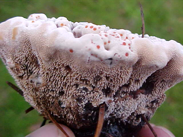 The fungus Hydnellum peckii Banker. Photographed in Near Cape Lookout, Tillamook Co, Oregon, USA.